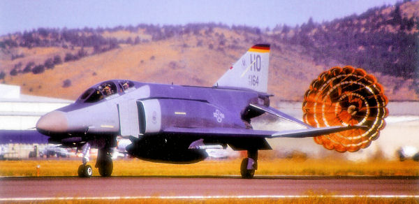 German F-4F of the USAF 20th Fighter Squadron, Holloman Air Force Base New Mexico.